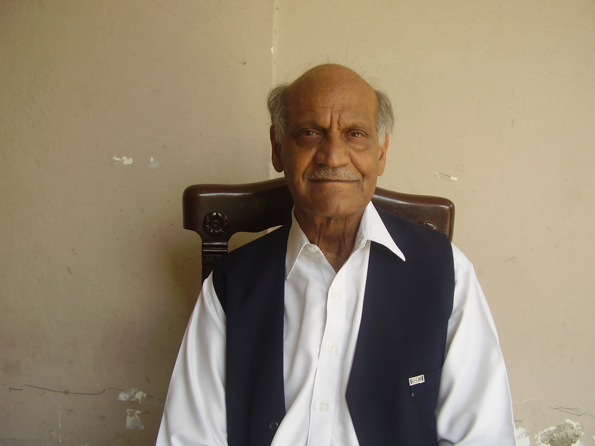 Anwar Masood's Portrait